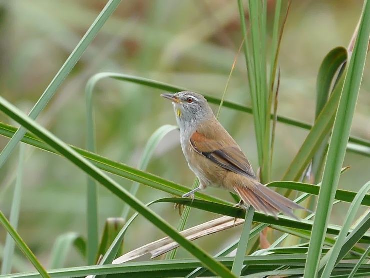 Sulphur-bearded Spinetail (Cranioleuca sulphurifera) photographed in Rio Grande do Sul, Brazil, in March 2011.